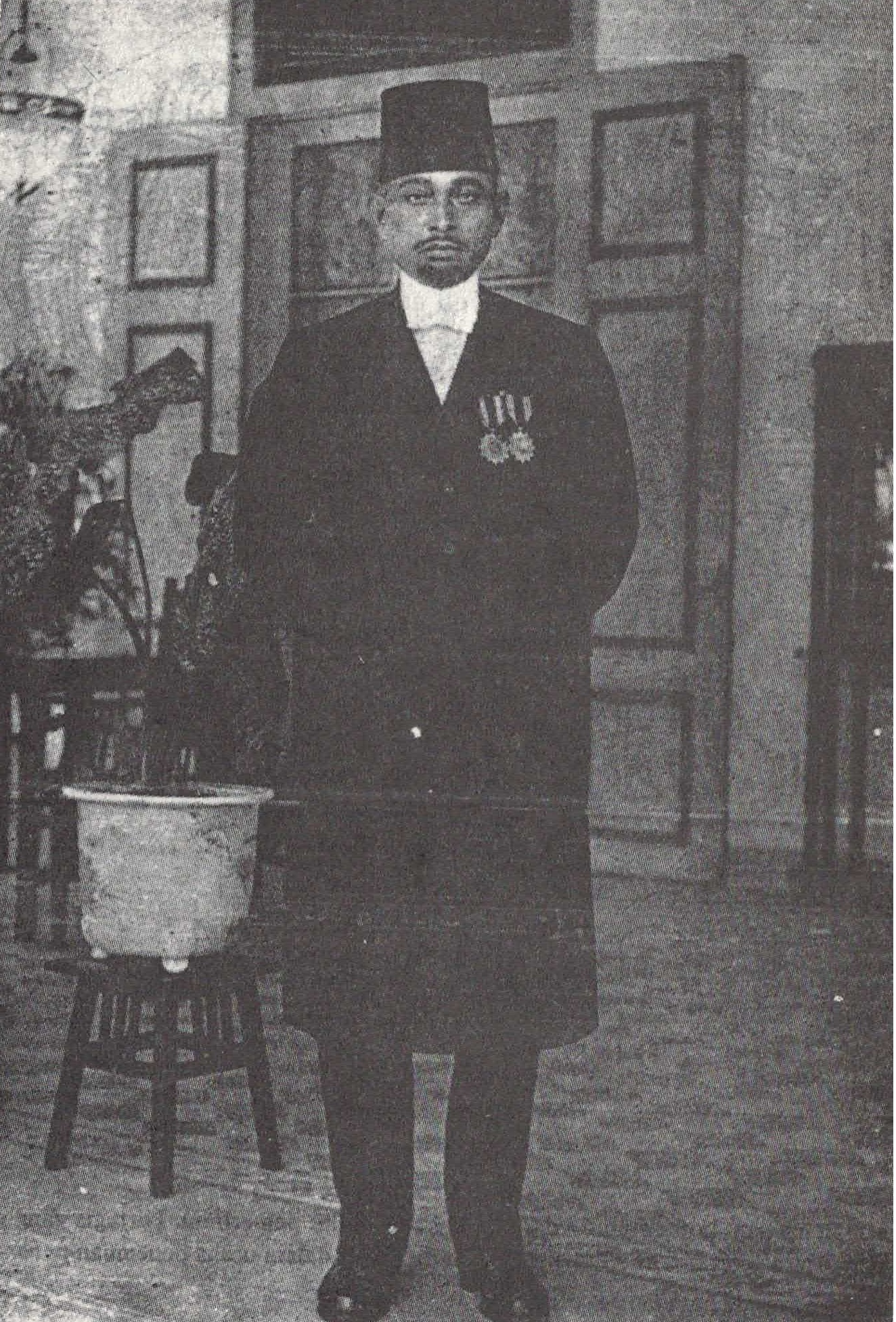 Father of Hamid Algadri